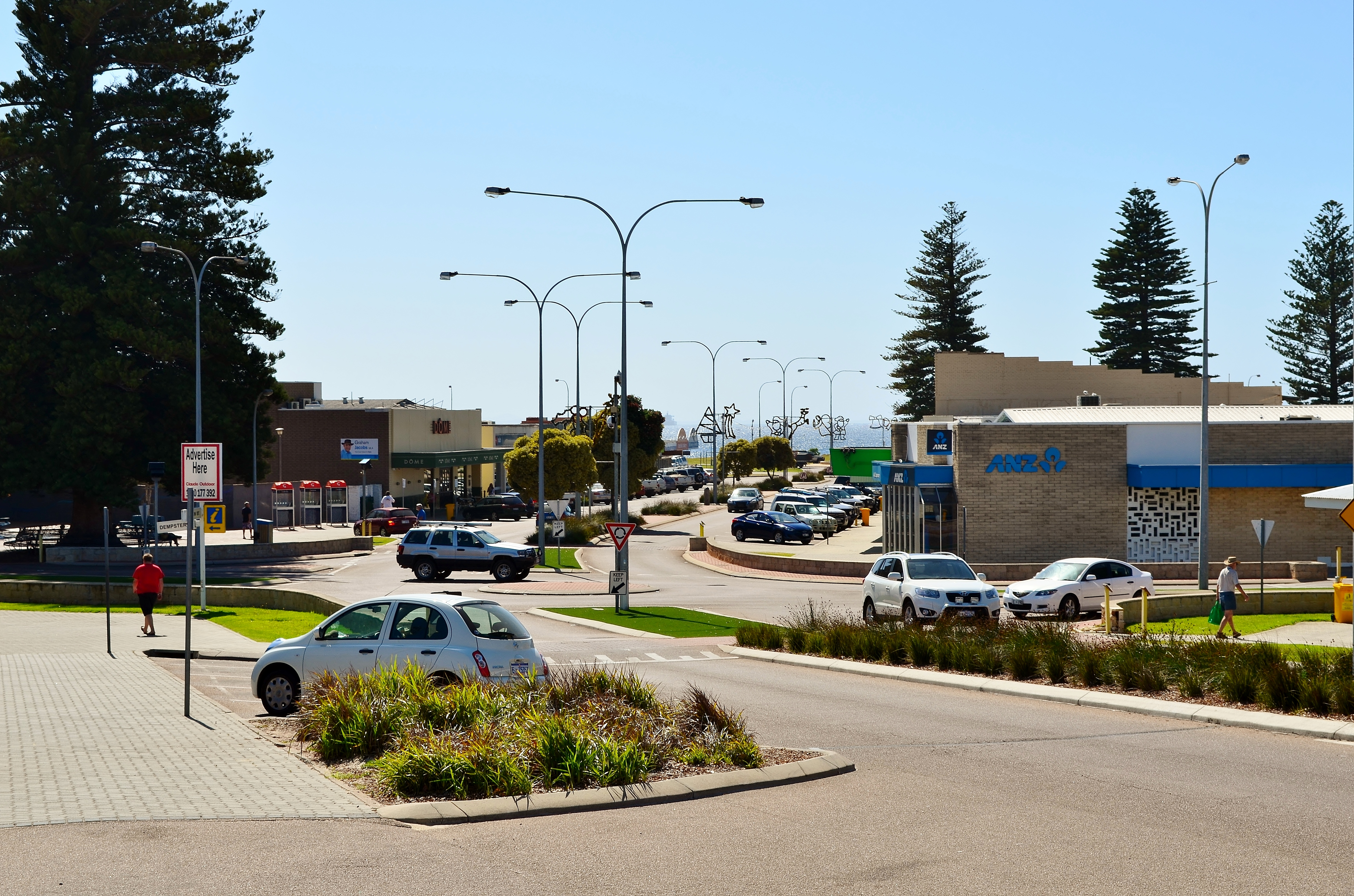 View of Andrew Street, Esperance, Western Australia. In the foreground is the roundabout marking the crossroads between Andrew Street and Dempster Street. In the background is the waterfront facing the Great Australian Bight.